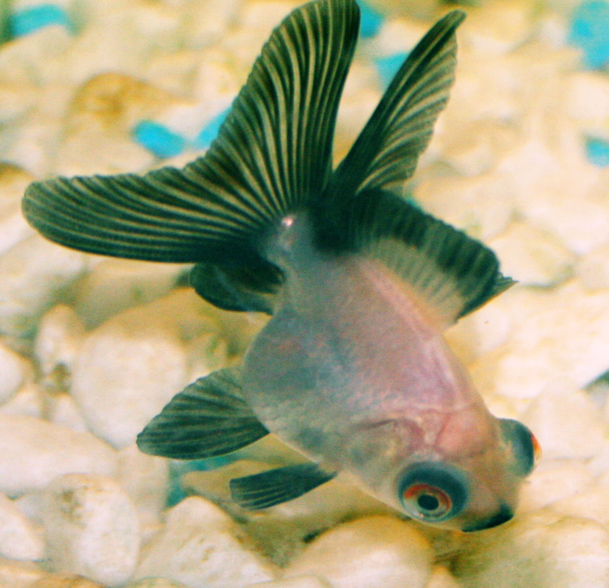 baby panda moor goldfish.